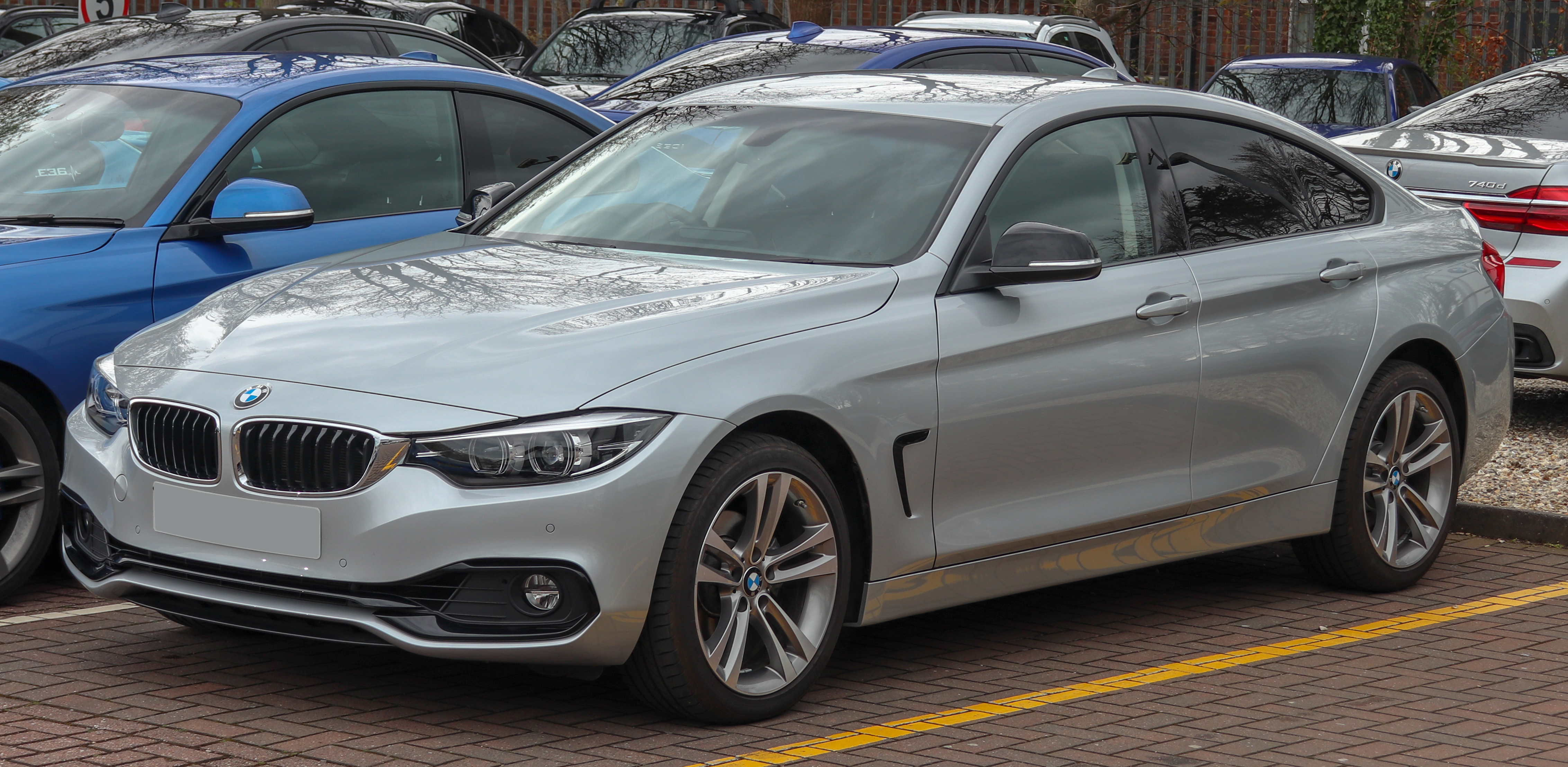 2018 BMW 420i xDrive Gran Coupe Sport 2.0 Front Taken in Leamington Spa